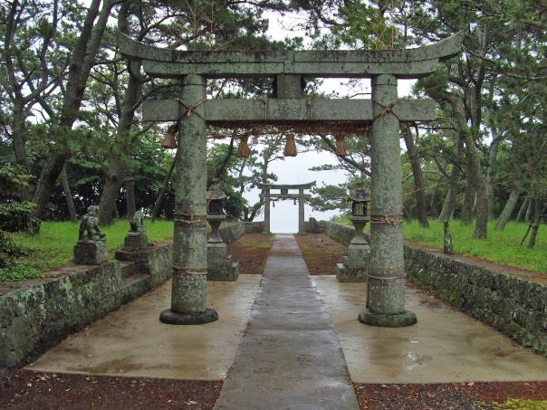 A look at the gates of the Koujima Shrine.